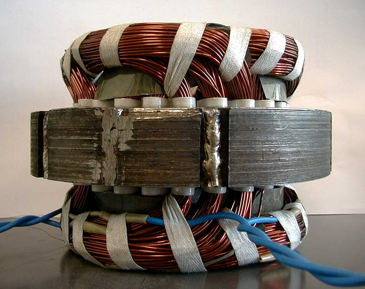 Stator of an electric motor with windings